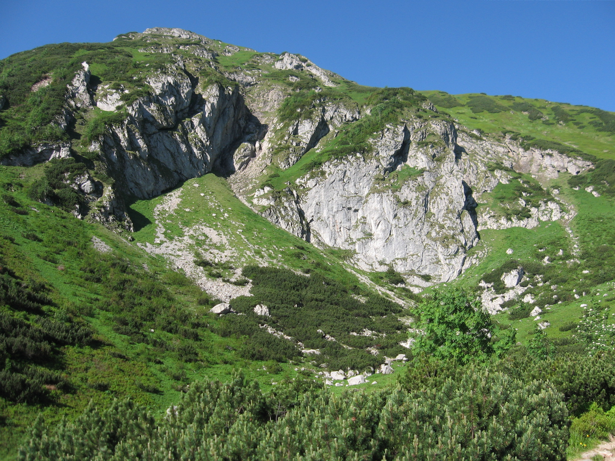 Piekło from path to Kondracka Pass